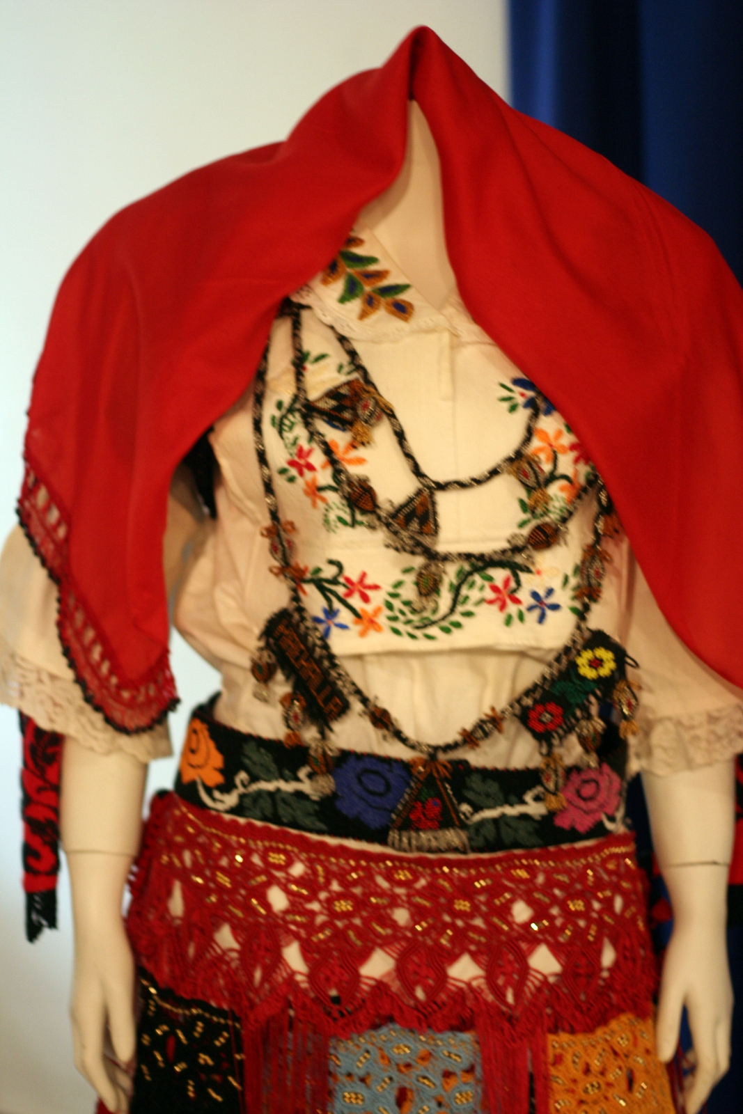 Veshje Tradicionale